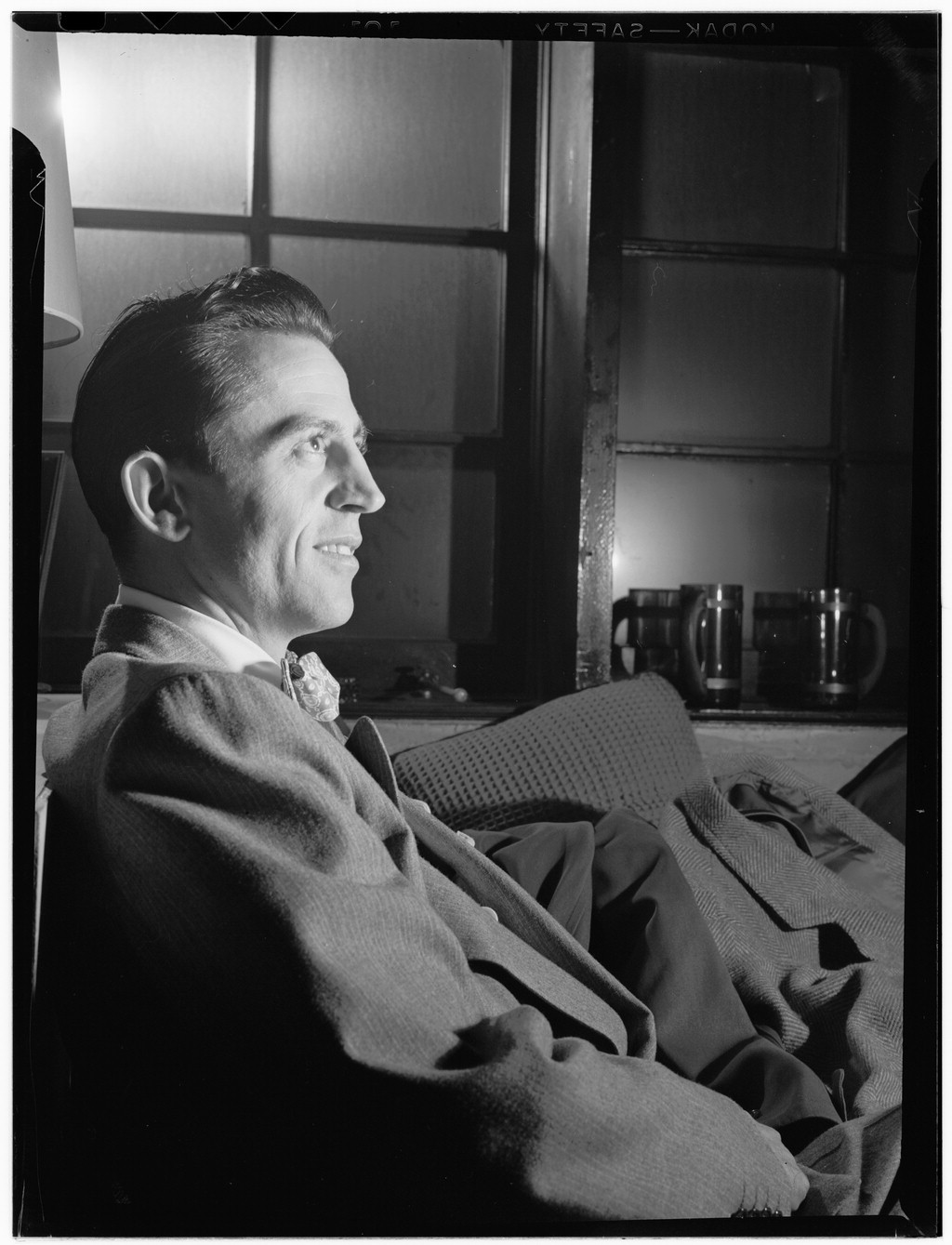 Boyd Raeburn. Edwin A Finckel's home. Photography by William P. Gottlieb, ca June 1946.